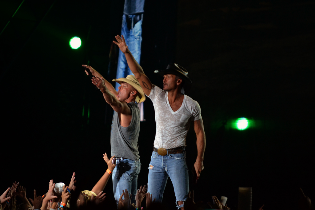 Kenny Chesney & Tim McGraw in Detroit Michigan